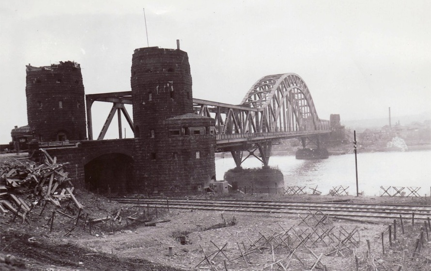 The Ludendorff Bridge over the Rhine between Erpel (foreground, east side) and Remagen (background, west side) after it was captured by U.S. troops.